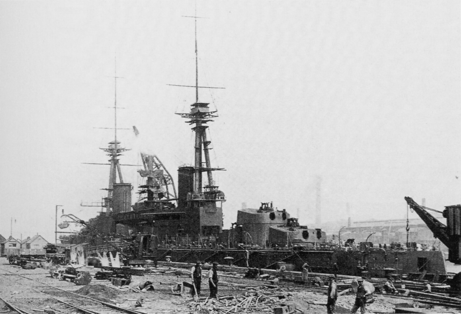 Sultan Osman I fitting out at Low Walker, after Brazil sold the ship to the Ottoman Empire, but before the British seized her.